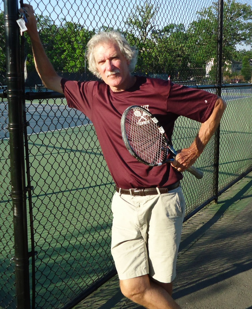 Tennis coach and social studies instructor Peter Tierney emphasizes sportsmanship, practice, and discipline, and he has led the school to numerous winning seasons.